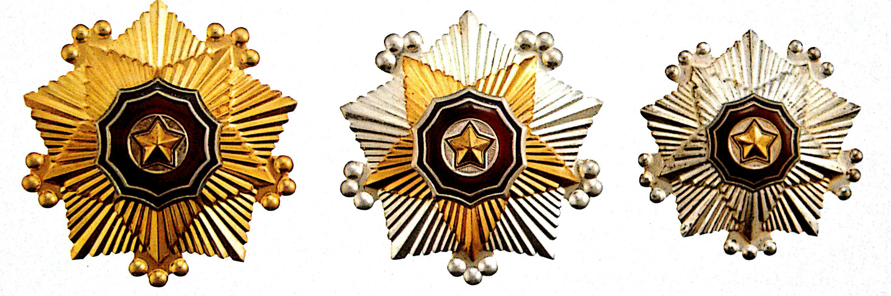 Order of the National Flag 1, 2, 3cl.